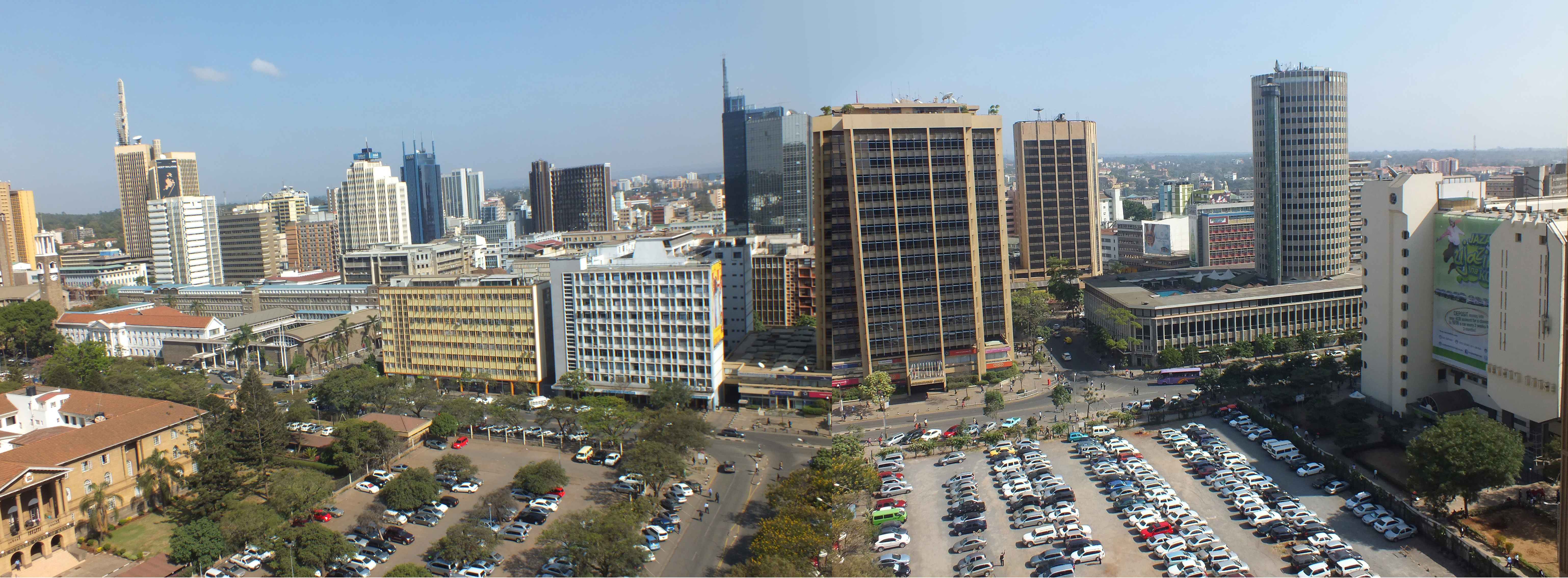 Panoramic outlook stitched together of 2 images taken one by the other from the 13th floor at the Insurance Plaza. From Kencom House and the Hilton's tower to the right, through the CBD principal highrises to the Supreme Court in the lower left, Nairobi is one of Africa's most Western-like cities in its design structure.Kiswahili: Nairobi.